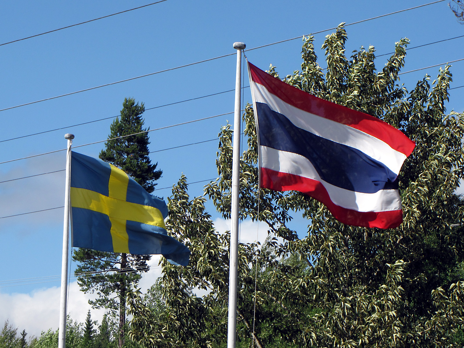 The flags of Sweden and Thailand.